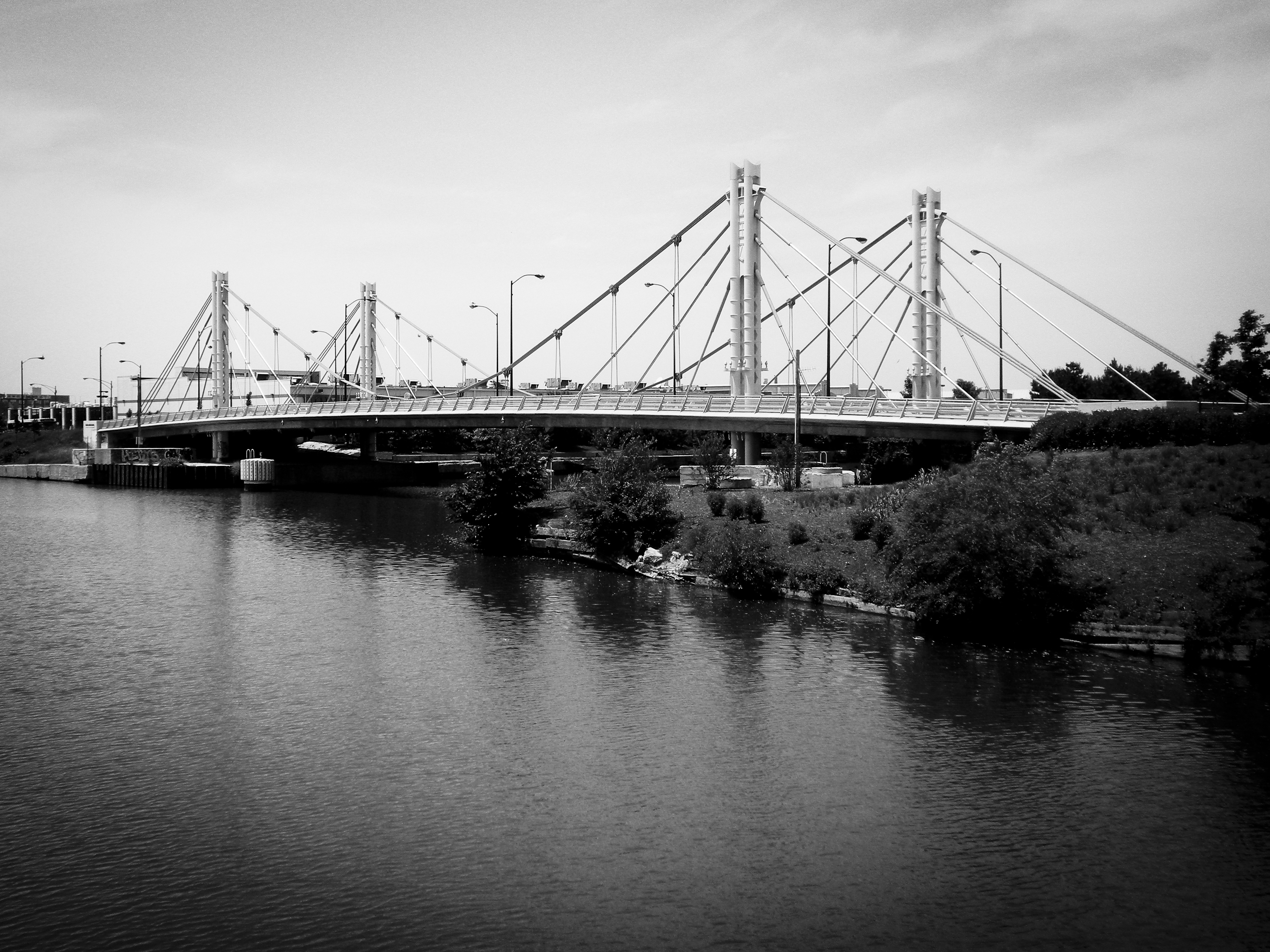 Photograph of the North Avenue Bridge over the North Branch of the Chicago River.